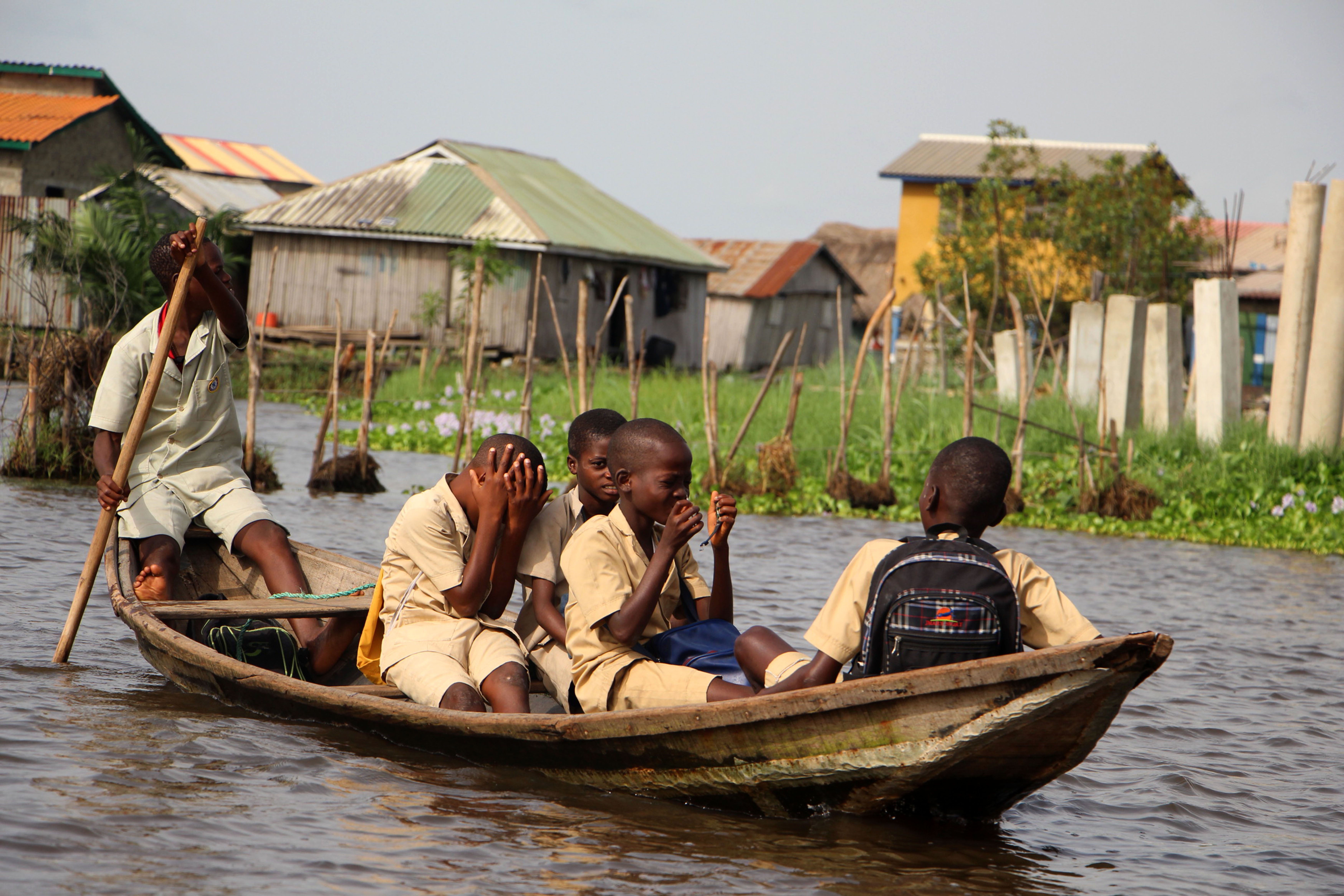 school children go to school in pirogue This is an image with the theme "Africa on the Move or Transport" from: Benin